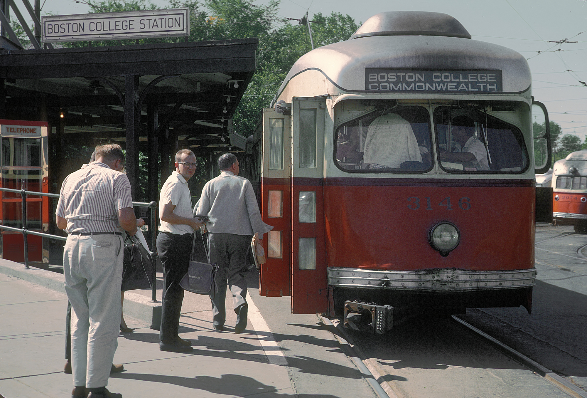 PCC streetcar #3146 boards passengers at Boston College in September 1965